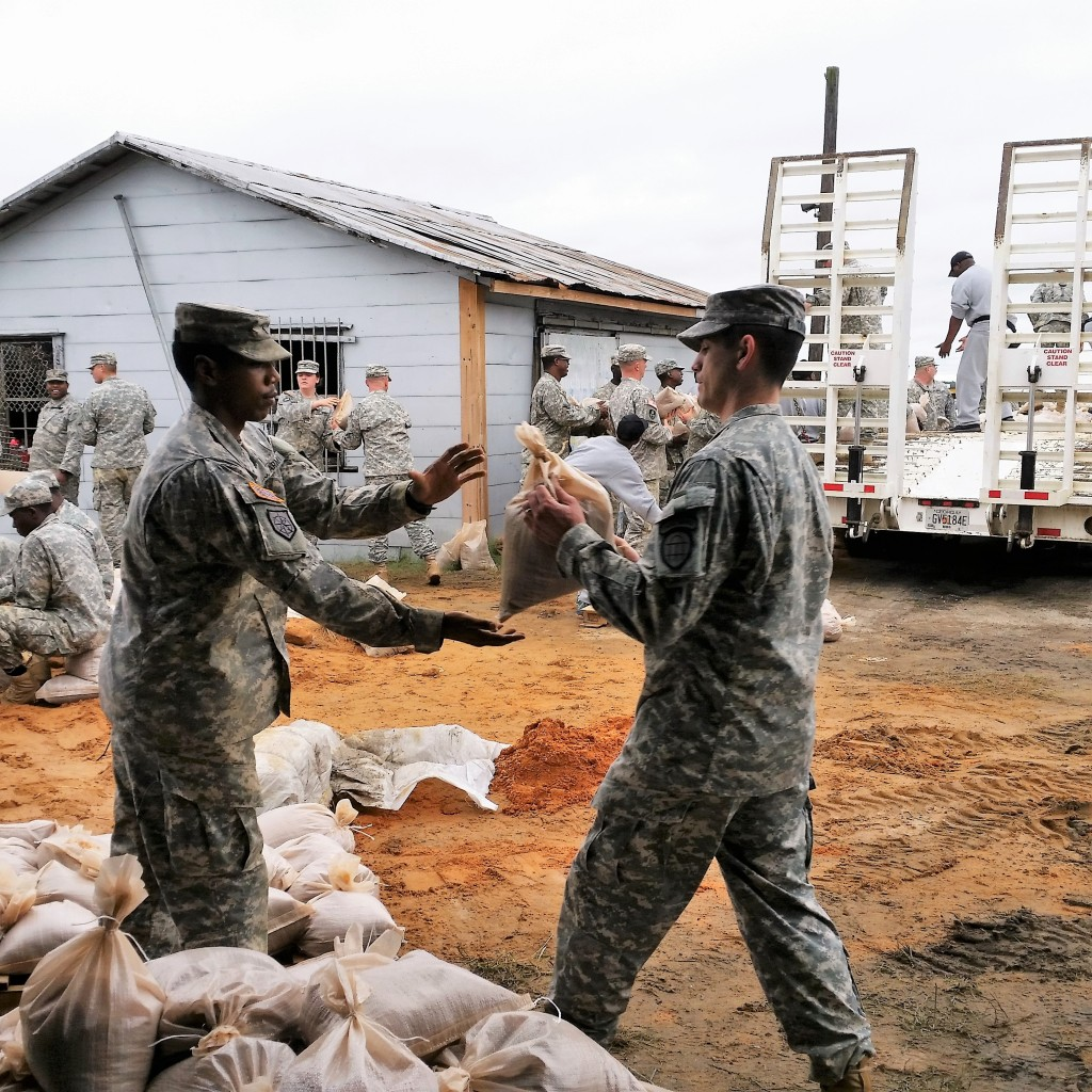 HEPHZIBAH, Ga, October 4, 2015 - A Georgia State Defense Force Volunteer passes a sandbag to a Georgia Army National Guard Soldier during a flood preparation mission near Augusta. More than 200 members of the Ga Department of Defense, including 125 Guardsmen, 40 State Defense Force personnel, and 30 cadets from the Fort Gordon Youth Challenge Academy labored for eight hours to fill 8,000 sandbags. The sandbags will be used to protect citizens of Georgia and South Carolina from rising flood waters following rains from Hurricane Joaquin. Georgia State Defense Force photo by Chief Warrant Officer 2 W. Kevin Ward / released